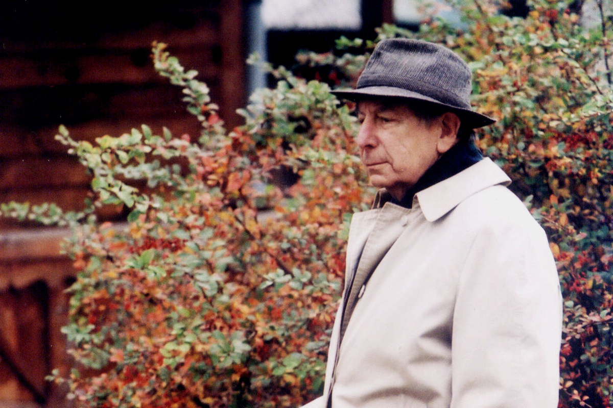 Roman Totenberg in Zakopane, Poland. 17-10-2000. Roman Totenberg w Zakopanem 17-10-2000.